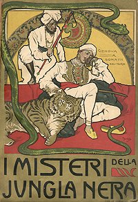 Original cover for The Mystery of the Black Jungle.